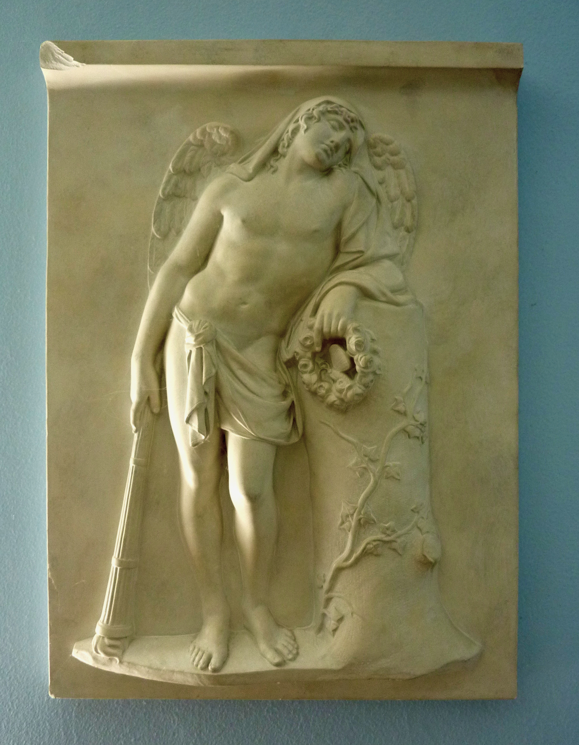 Thanatos - relief by Johann Gottfried Schadow for a side panel on the tomb of Count Alexander von der Mark.